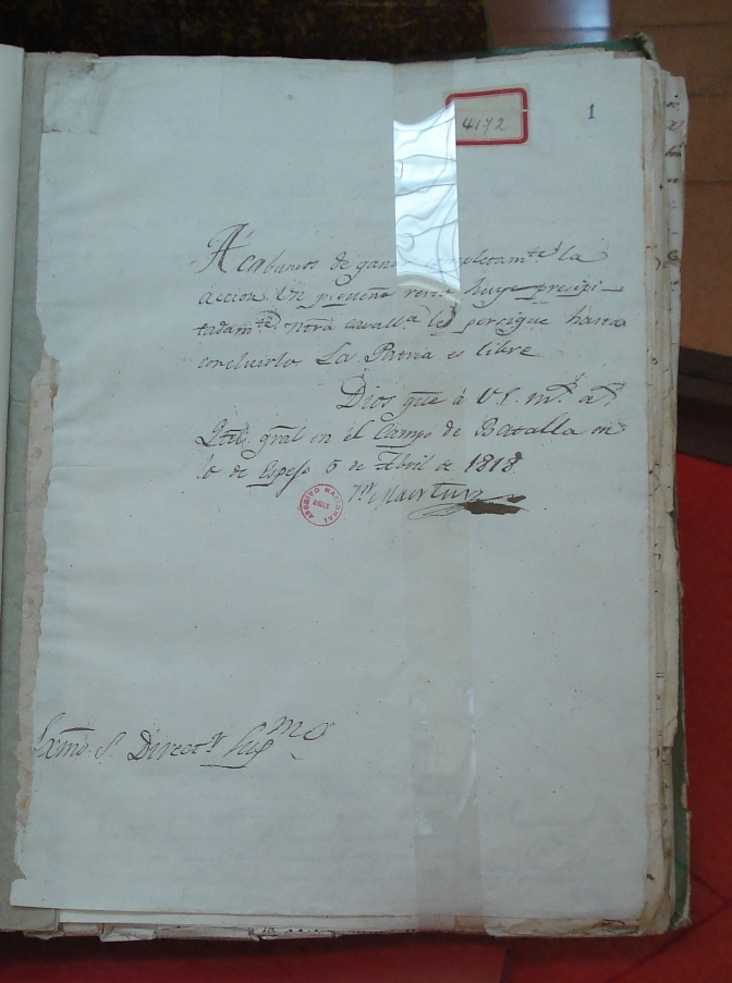 Letter of José de San Martin to Bernardo O'Higgins, announcing the victory in the Battle of Maipú that summed up the Independence of Chile. April 5, 1818, National Archive of Chile.